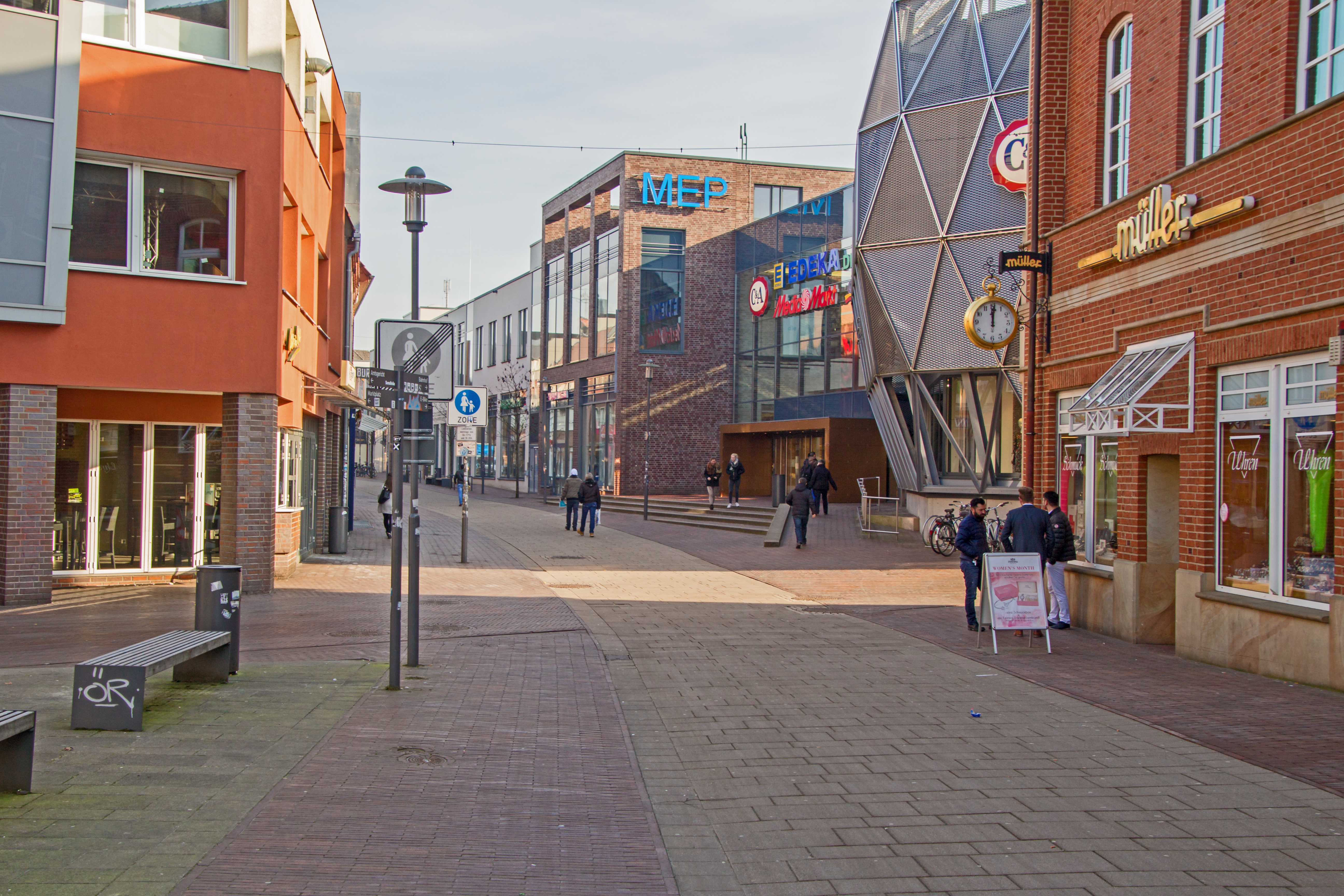 pedestrian zone at "Bahnhofstraße" - Meppen, Lower Saxony, Deutschland